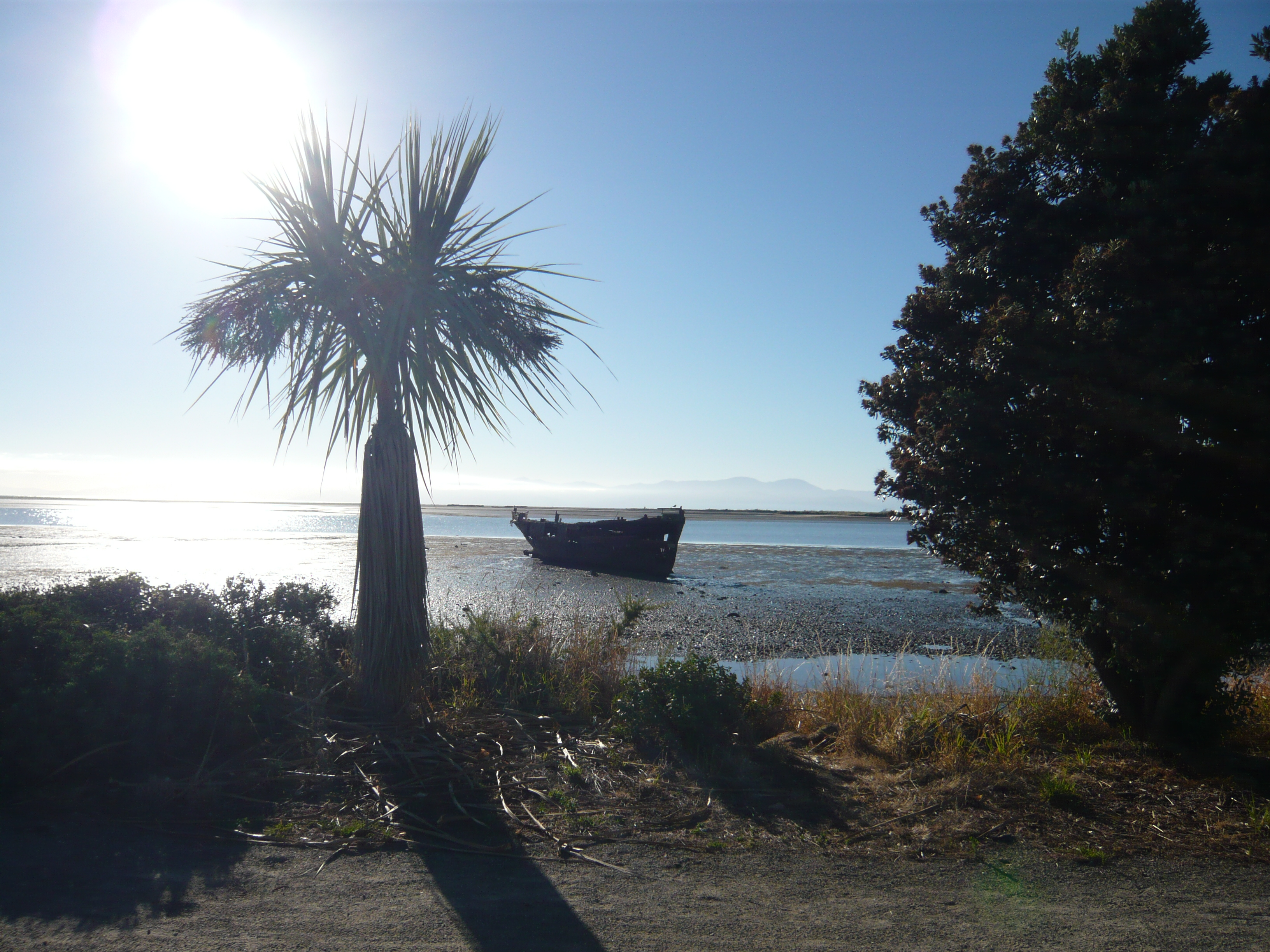 Beach at Motueka with low tide, New Zealand